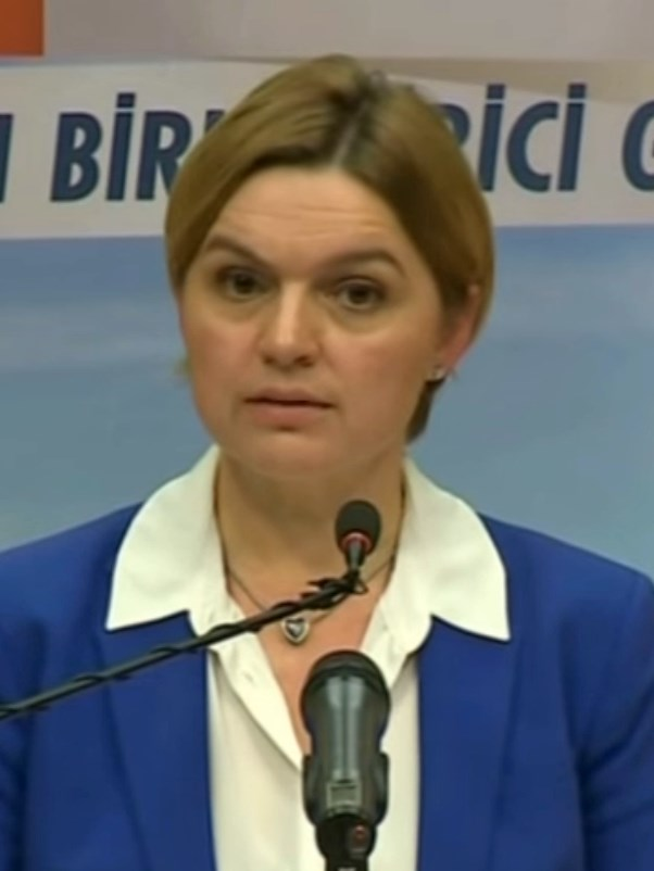 Turkish-American economist and politician Selin Sayek Böke